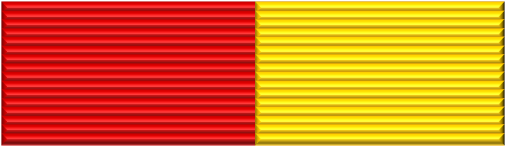 Vietnam Hero of Labor ribbon